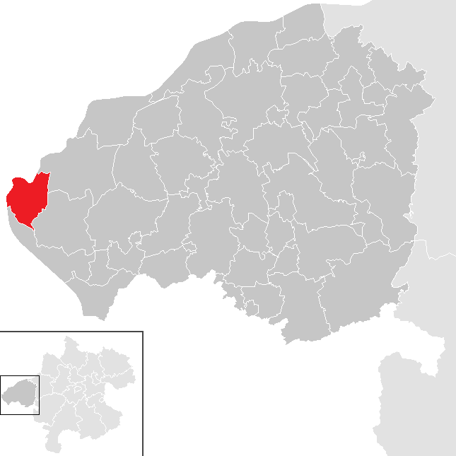 district Braunau am Inn